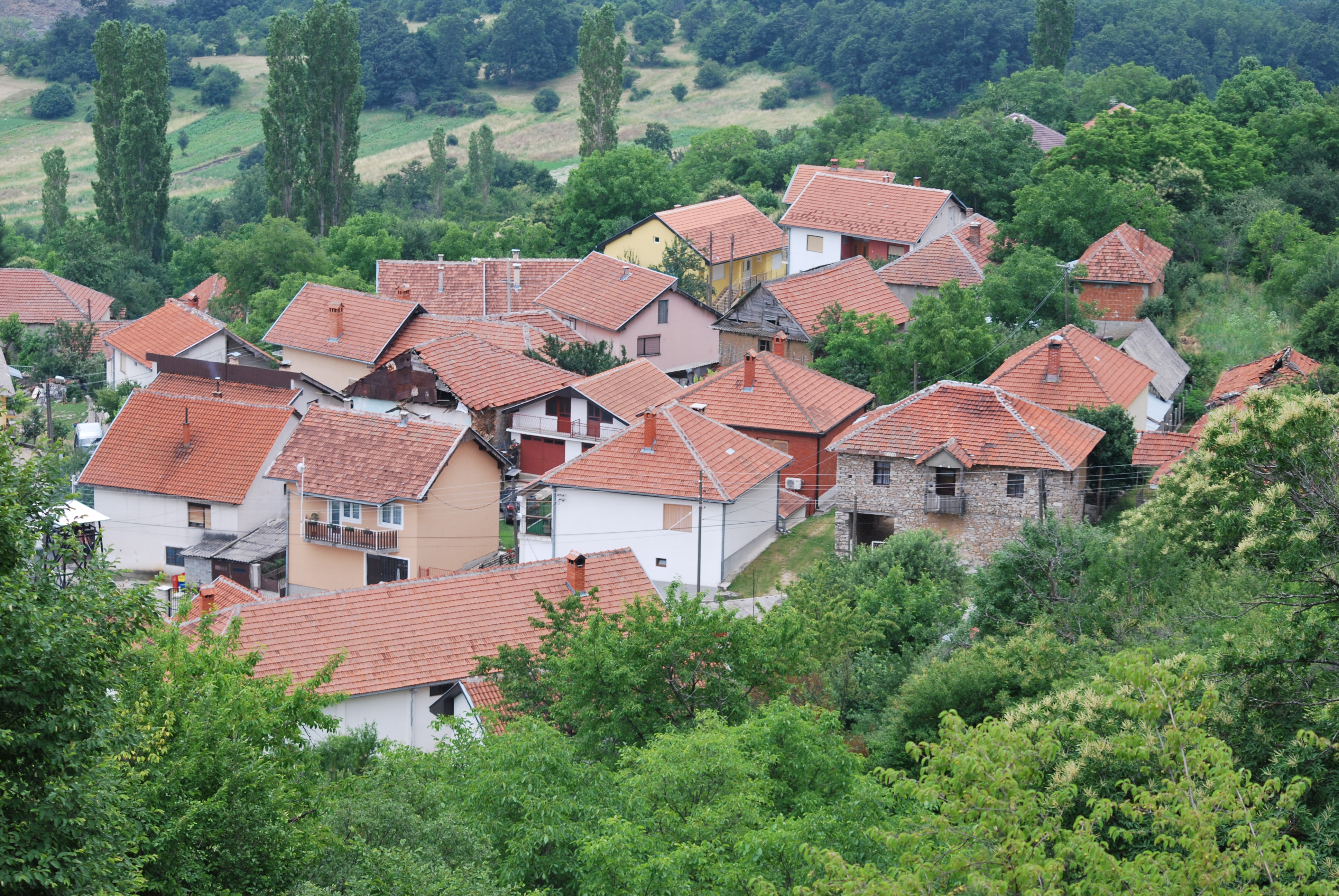 Rogačevo, Macdonia.